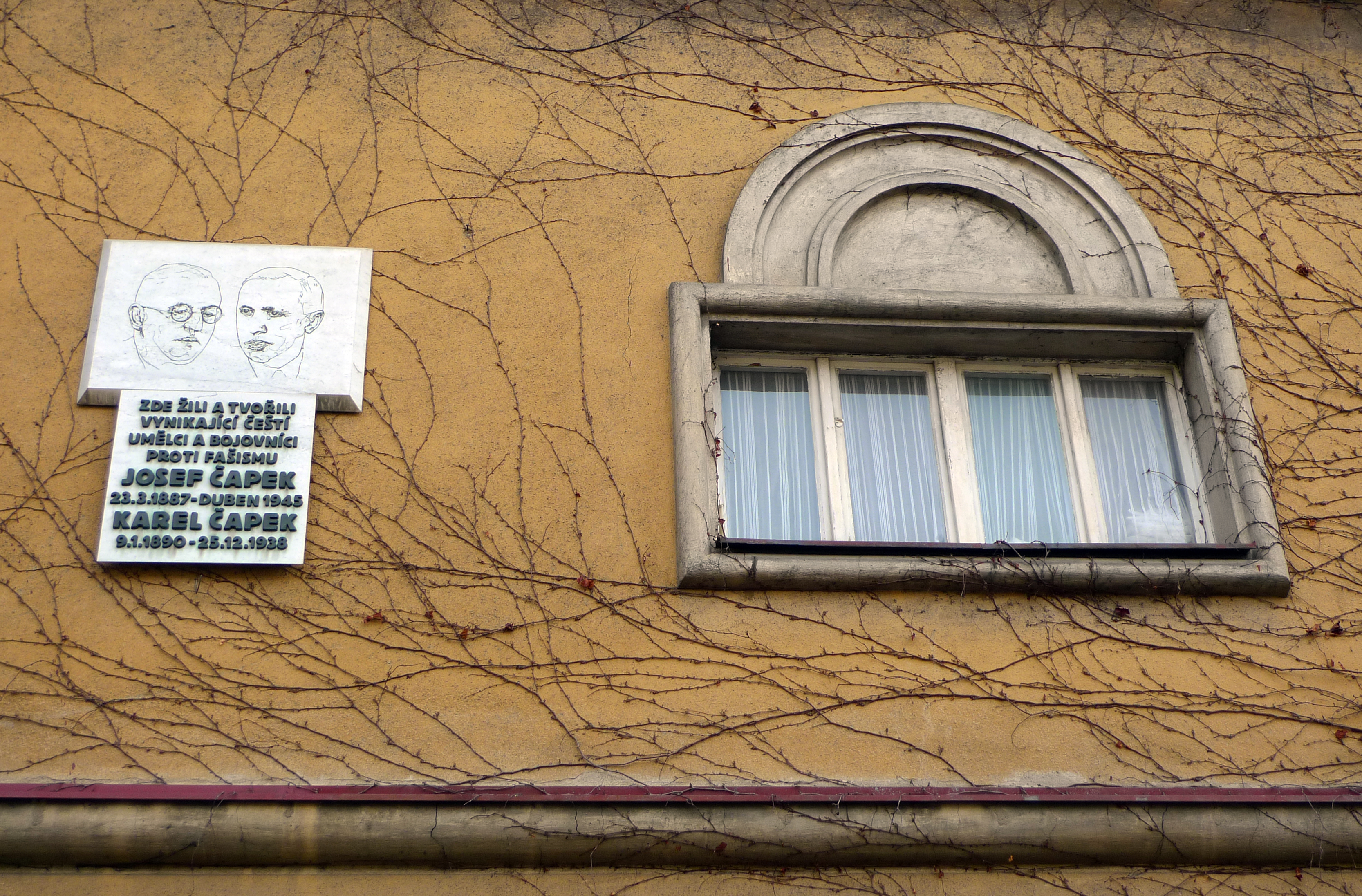 Prague 10-Vinohrady, Bratří Čapků street, house of Karel and Josef Čapek.